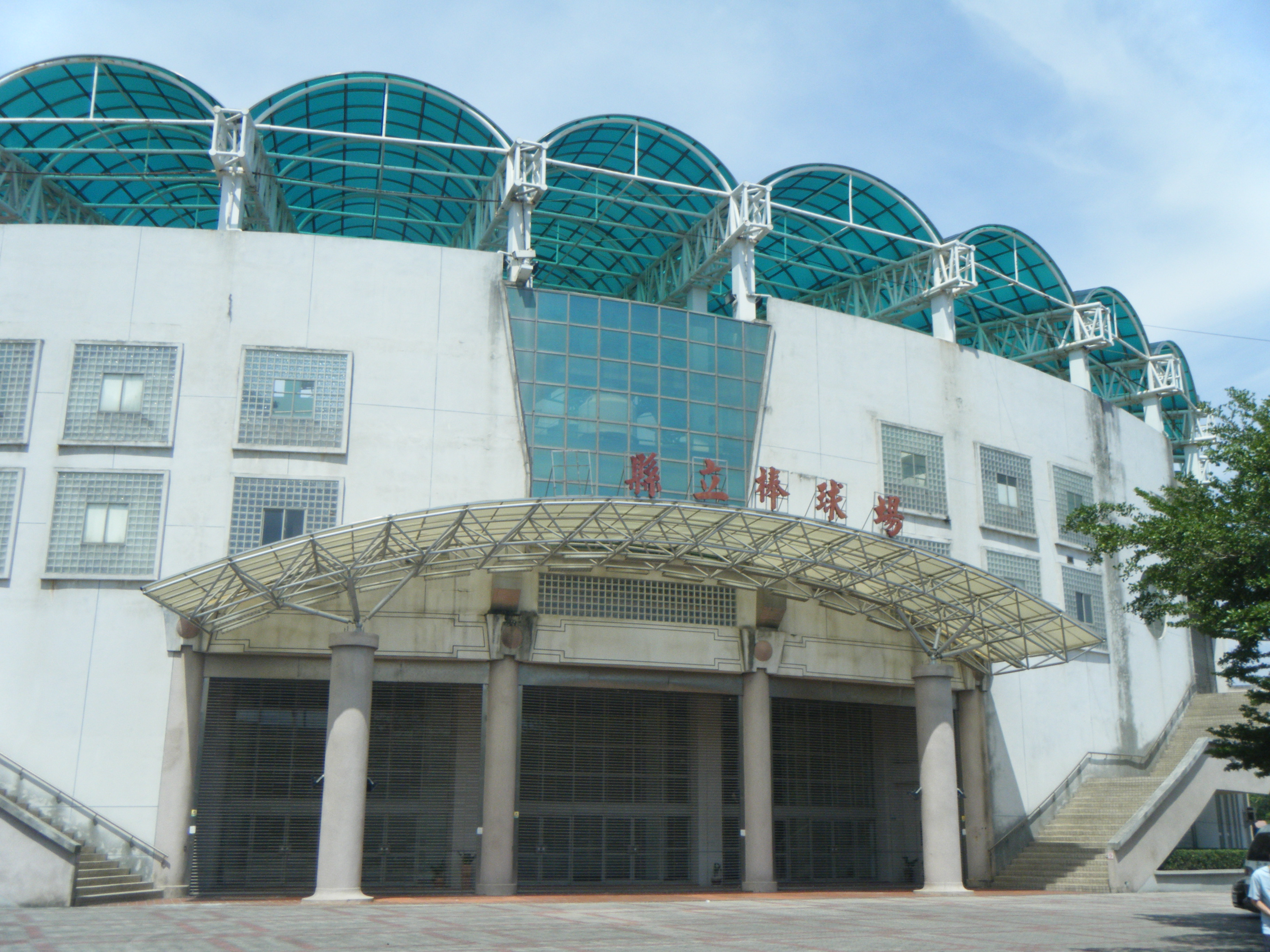 Chiayi County Baseball Stadium